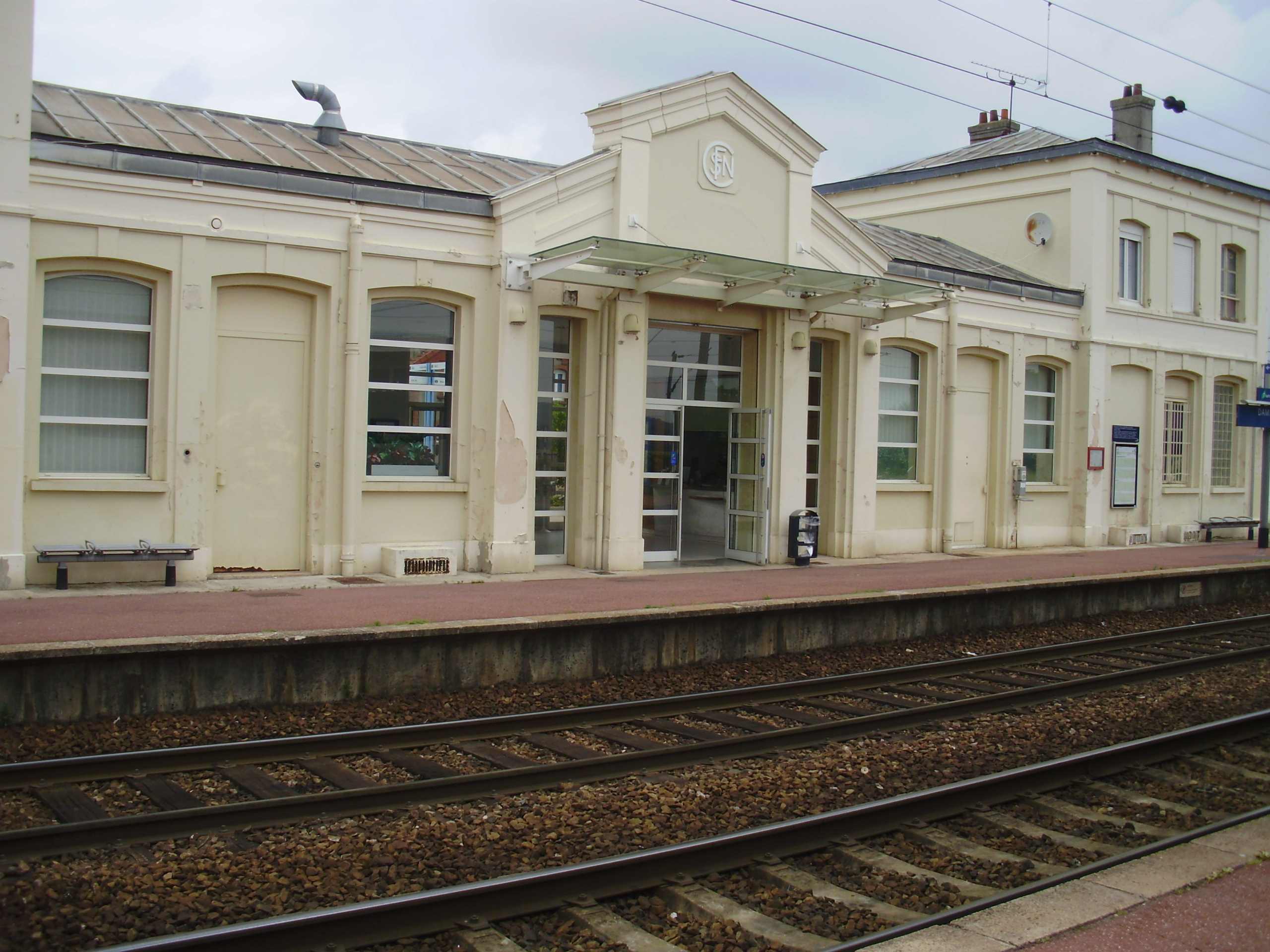 Dammartin - Juilly - Saint-Mard station, in Saint-Mard, Seine-et-Marne, France (central part seen from the platform to Paris)